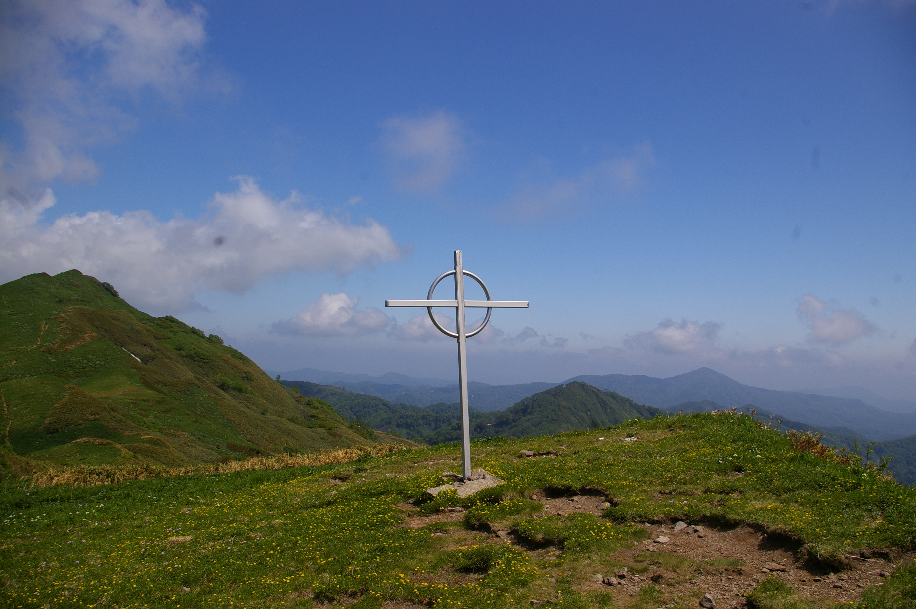 The Cross at Mount Dai-Sengen, for resepose of martyr's souls in Edo period